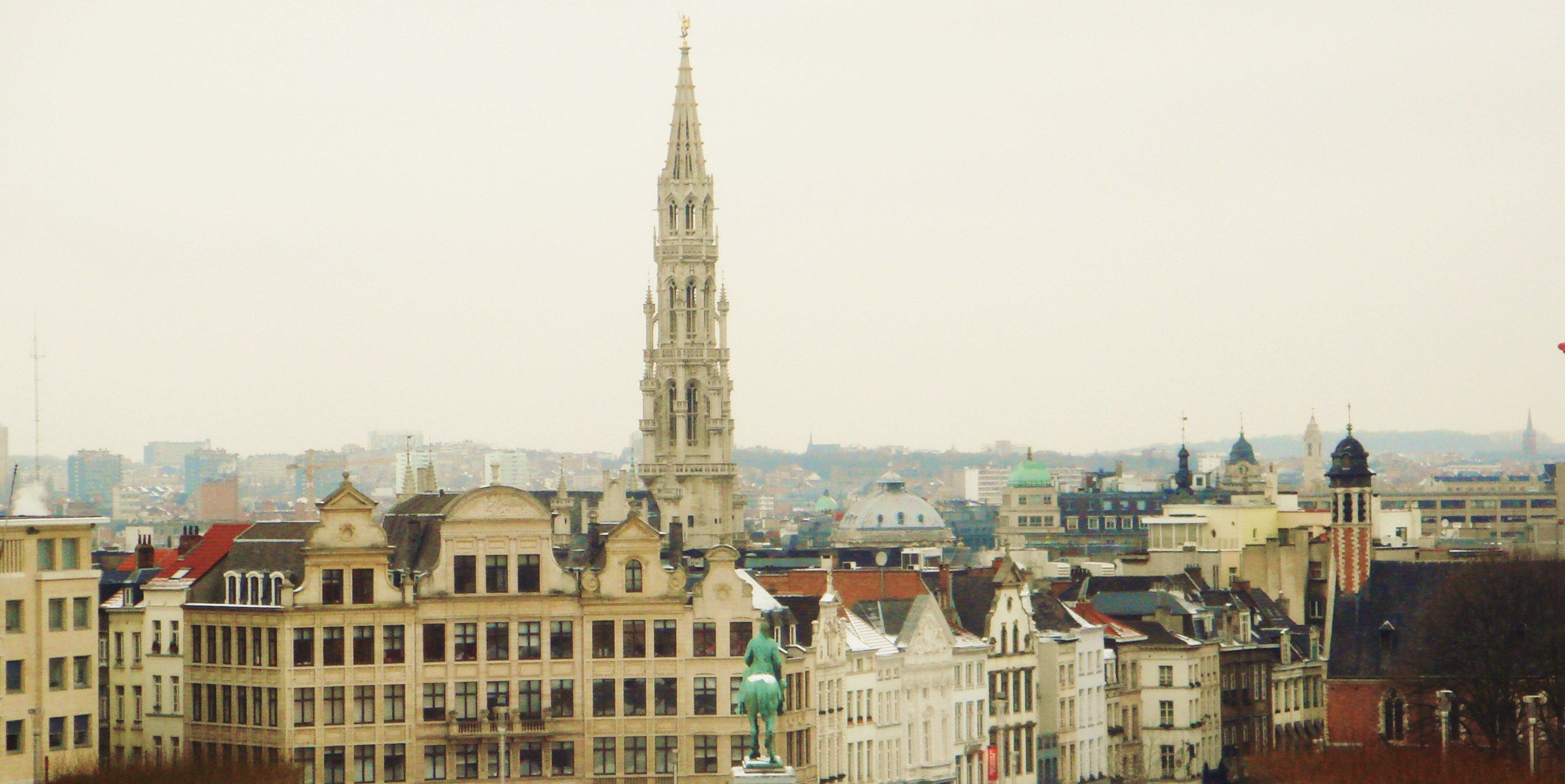 Brussels panoramic view.